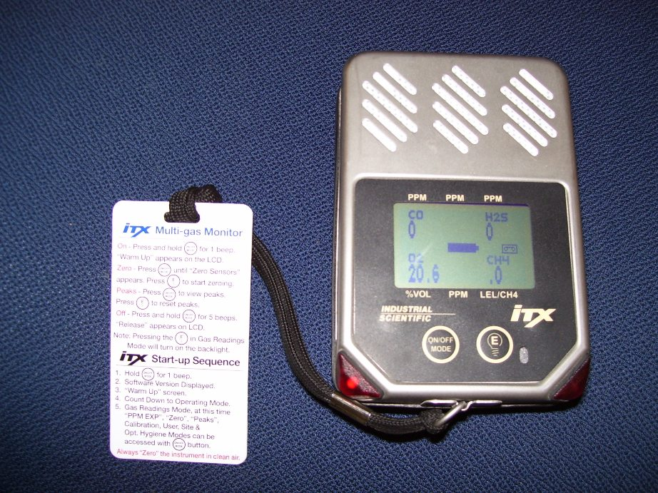 Portable gas detector (or monitor) from Industrial Scientific company, ITX model (2006). Detectable gases include oxygen, hydrogen sulfide, carbon monoxide and methane (LEL - lower explosive limit). Card attached gives summary instructions for its use.